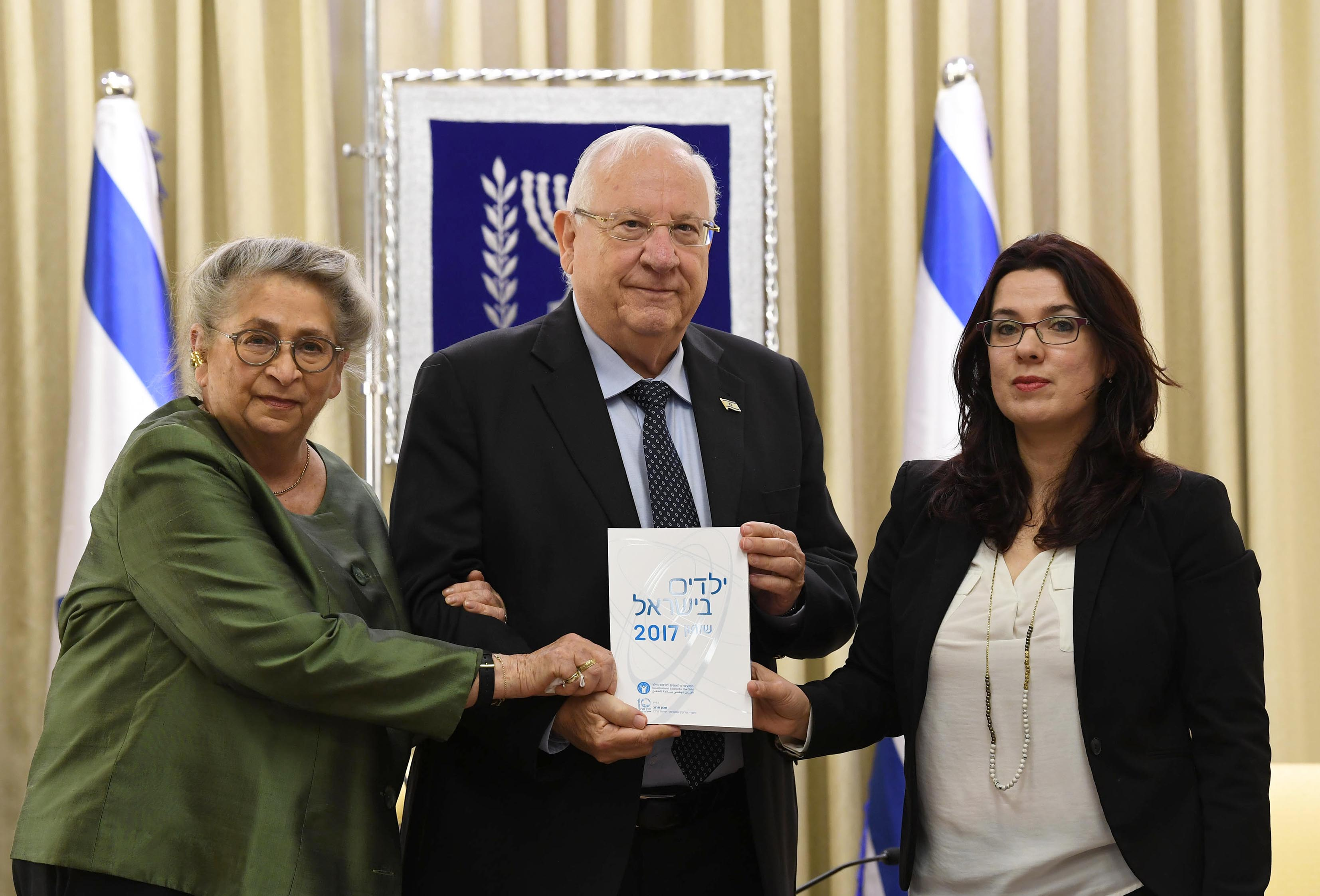 President of Israel, Reuven Rivlin, receives the Statistical Yearbook of Israel National Council for the Child of the year 2017. Tuesday, December 26, 2017. Photo Credit: Mark Neyman / GPO. Depicted people: Nechama Rivlin, Reuven Rivlin and Vered Vindman